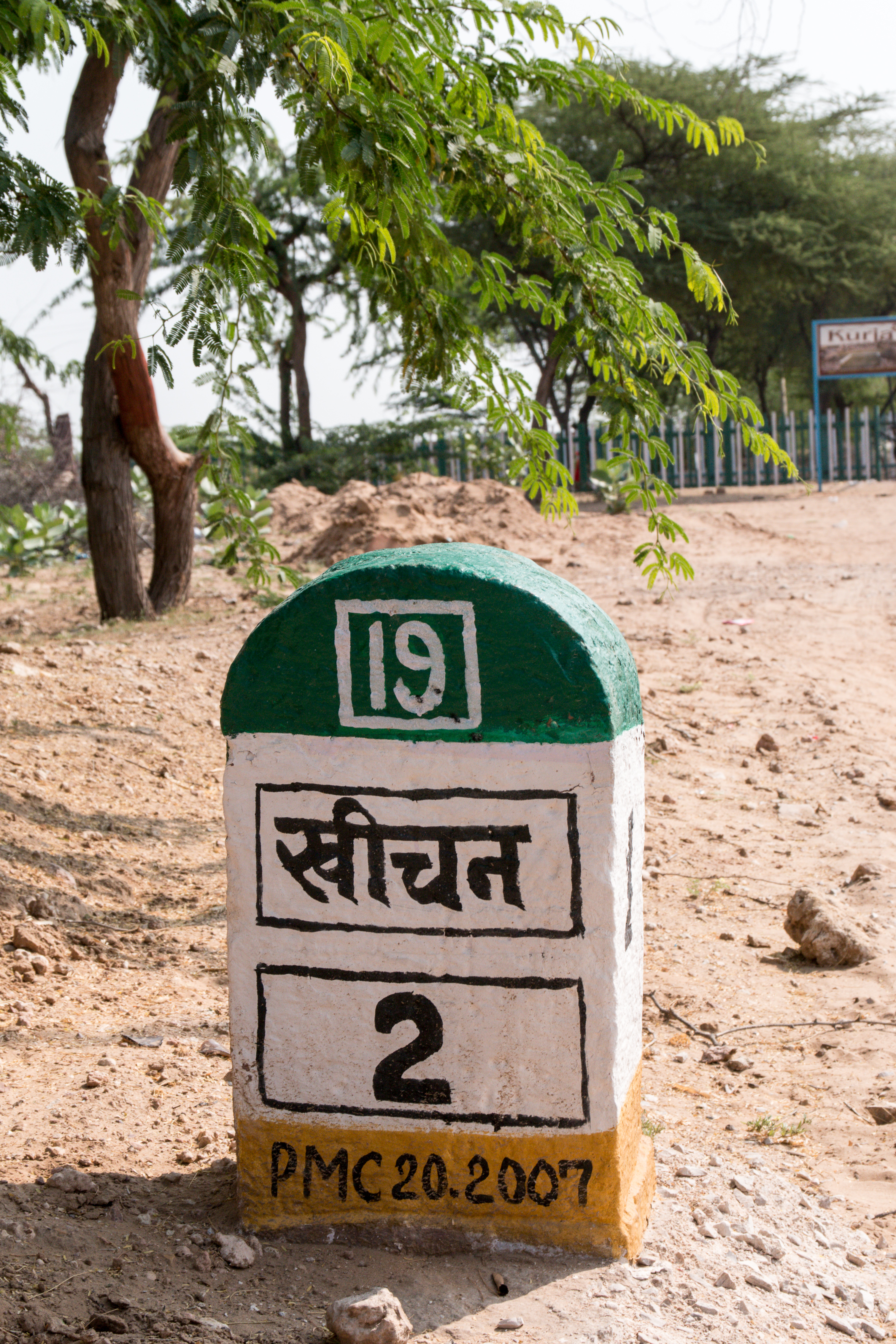 Milestone of the Rajasthan state, level crossing of Kichan.